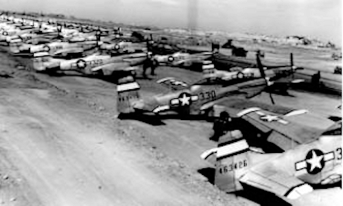 Flight Line, 21st Fighter Group, Iwo Jima, Field No. 2, Spring 1945 (USAAF Photo)